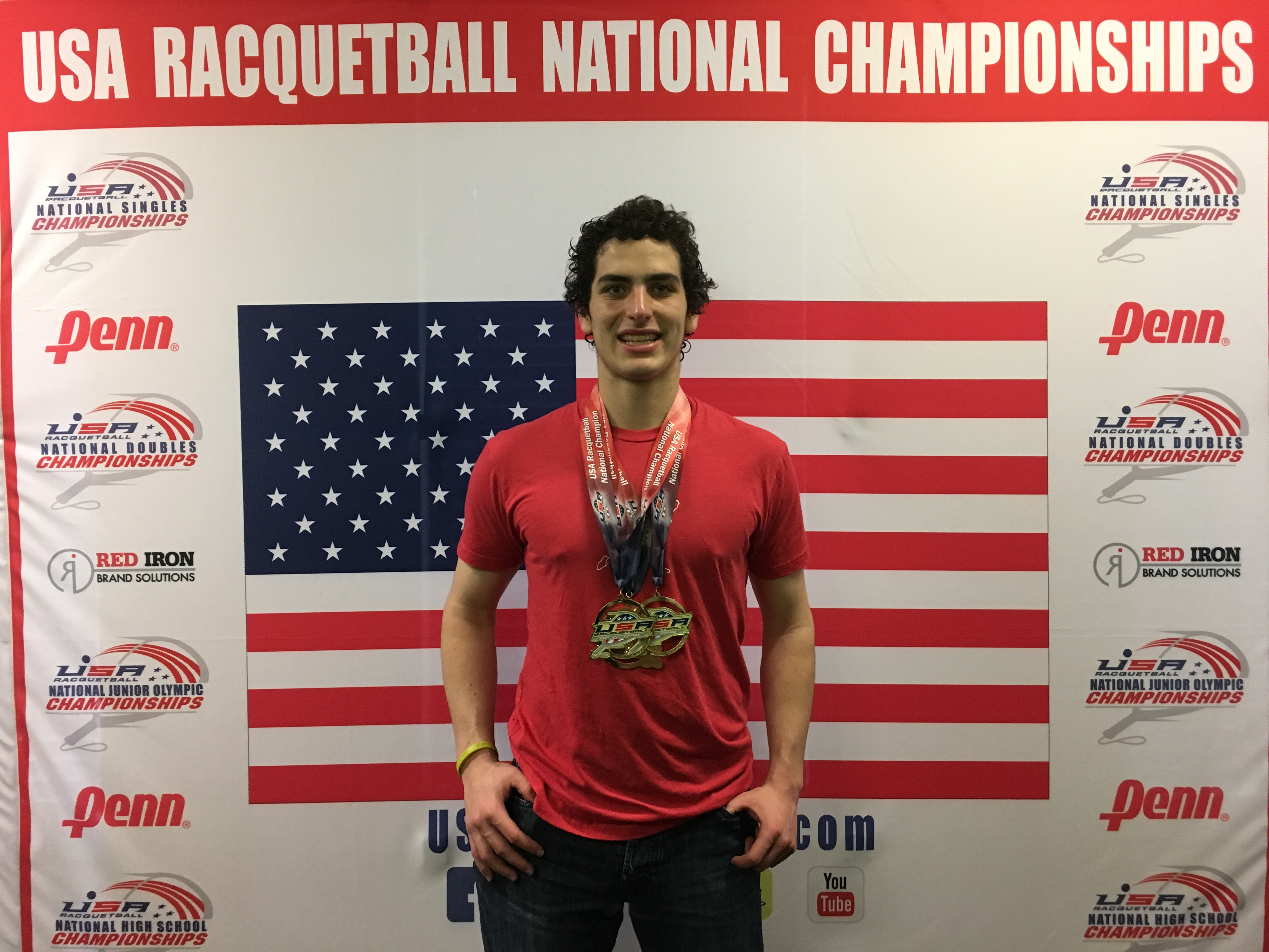 Dane Elkins with gold medals from National High School championship, 2017.